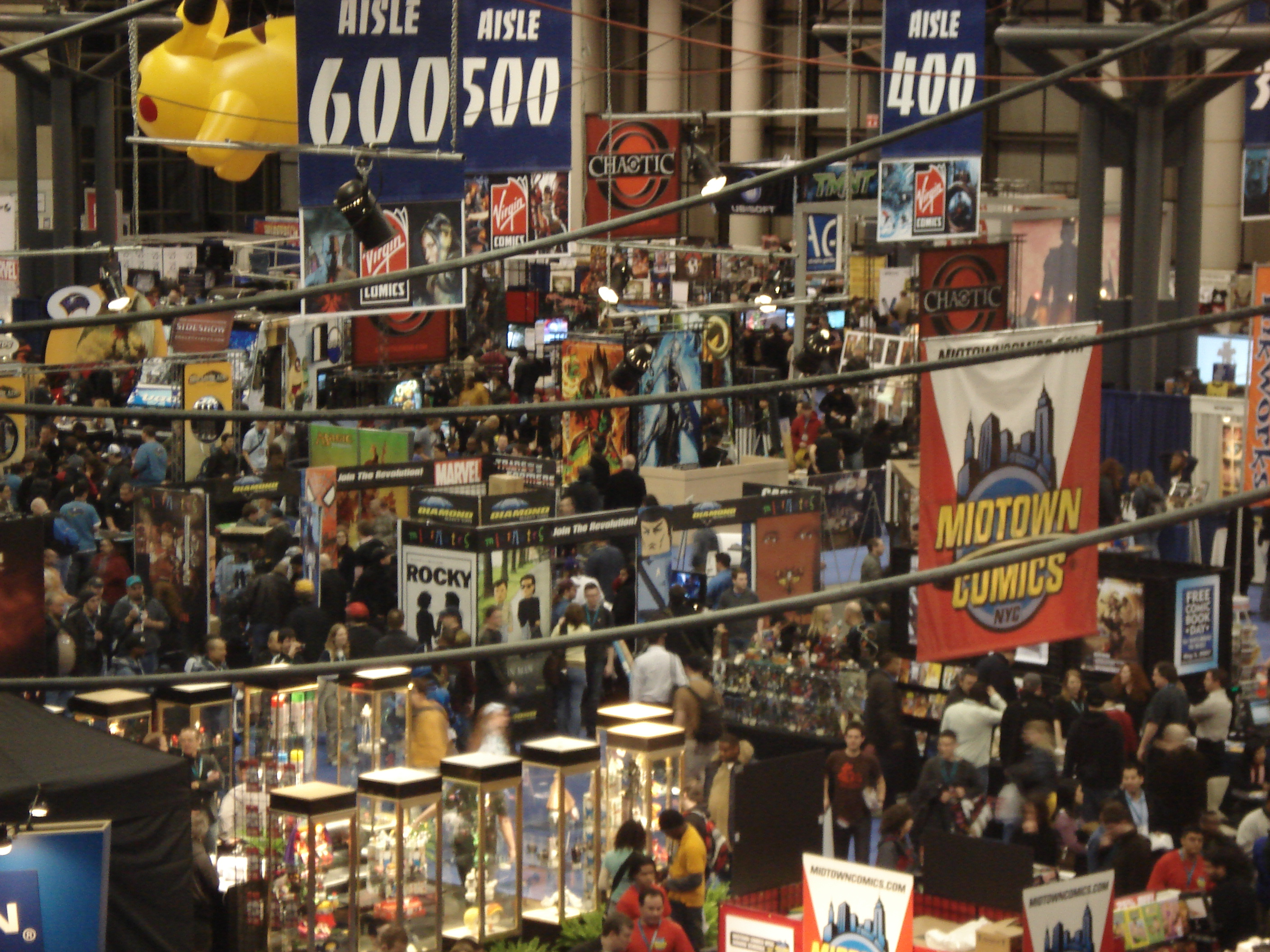 A scene from the floor of the en:2007 New York Comic Con. Copyright 2007 Jeffrey O. Gustafson - released under the GFDL and CC-BY-SA-2.0.